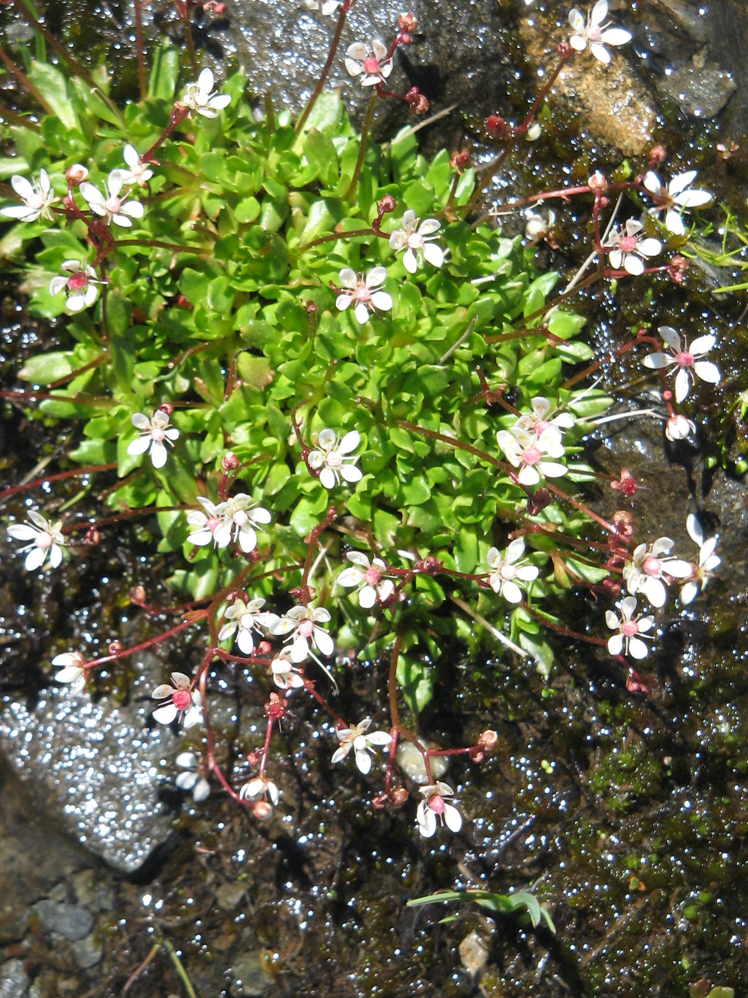 Saxifraga stellaris